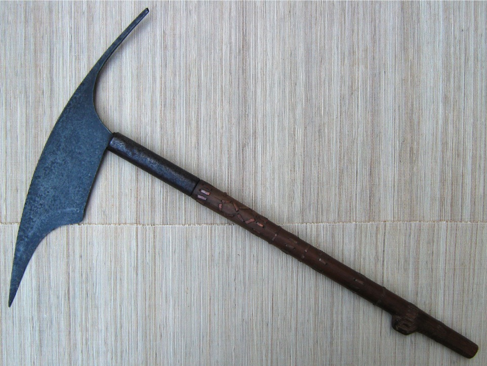 The above blade is commonly referred to as the Kalinga head axe of the people of northern Luzon in the Philippines. Perhaps north Luzon highland axe is a more accurate term because the axe is used not only in the Kalinga region but in other regions as well. The axe serves as both weapon and tool. As a tool, it is used as an adze, as a grappling hook when climbing slopes, as a kitchen blade, for circumcision and as shaver in the olden days, among many other uses. The typical axe has a handle made of plain wood. The above sample has copper 'staples' for enhanced grip. The cutting edge of the blade also shows a bi-metal construction -- the cutting edge itself is made of darker harder steel, sandwiched by softer lighter-color steel. Overall length: Handle length: 445 mm or 17.5 inches (including the 100-mm or 3.9-inch ferrule); Blade length: 350 mm (13.8 inches); Blade width: 65 mm (2.6 inches); Blade thickness at spine: 3 mm (1/8 inch) at front, 2 mm (5/64 inch) at middle, and 5 mm (3/16 inch) at the rear (spike end) The non-uniform thickness of the blade's spine is a quick way of determining whether a Kalinga head axe is an old and genuine one, or a "tourist" version. Other uploaded materials by the same author are here: (a) Luzon weapons; (b) Visayan weapons; (c) Moro weapons; and (d) Lumad (non-Moro Mindanao) weapons